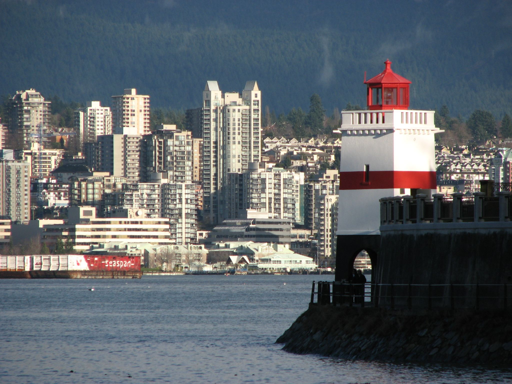 Brockton Point Lighthouse at Brockton Point with Vancouver in the background, British Columbia, Canada.